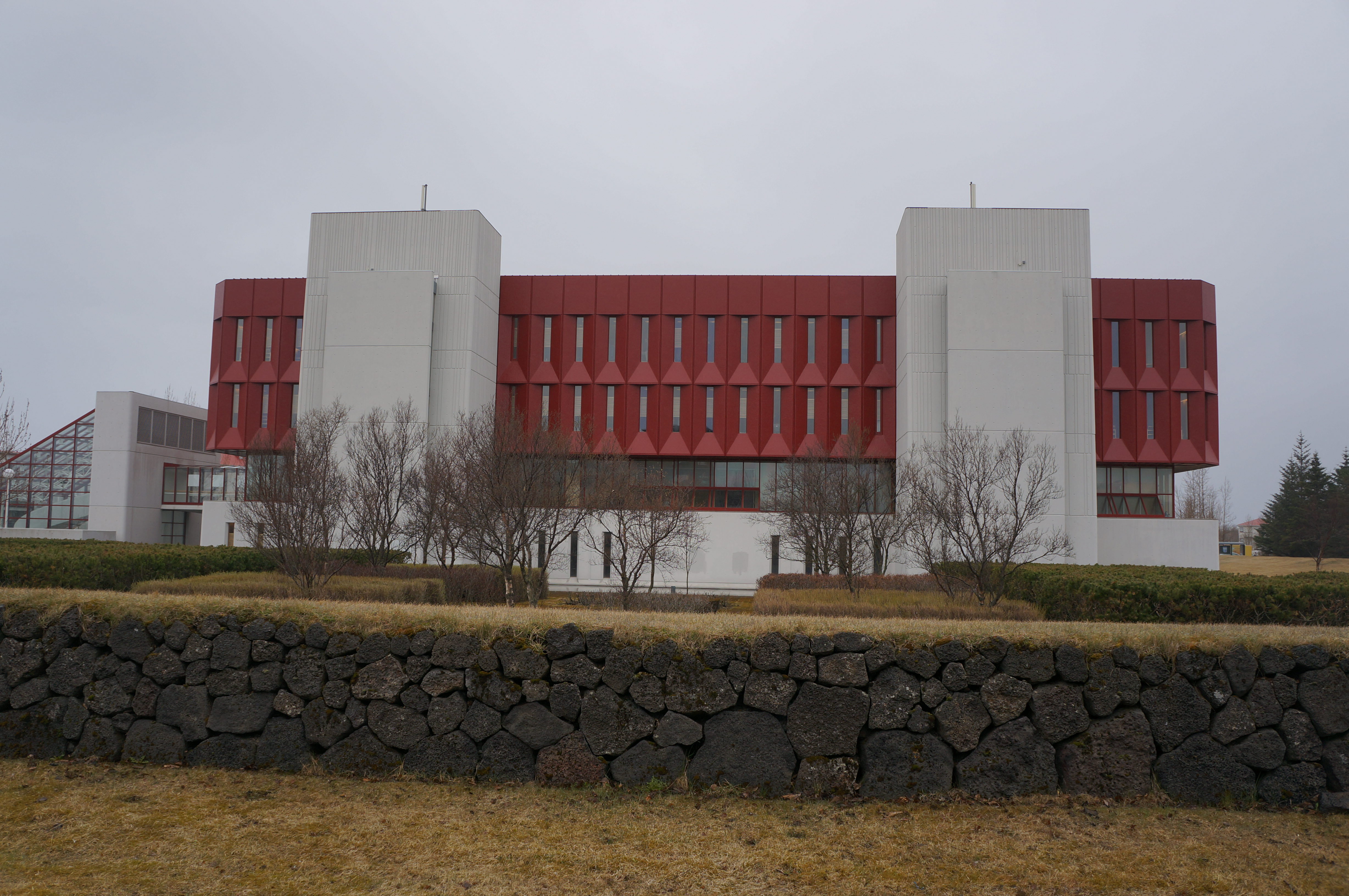 In Iceland, the offices of the University of Iceland's library.